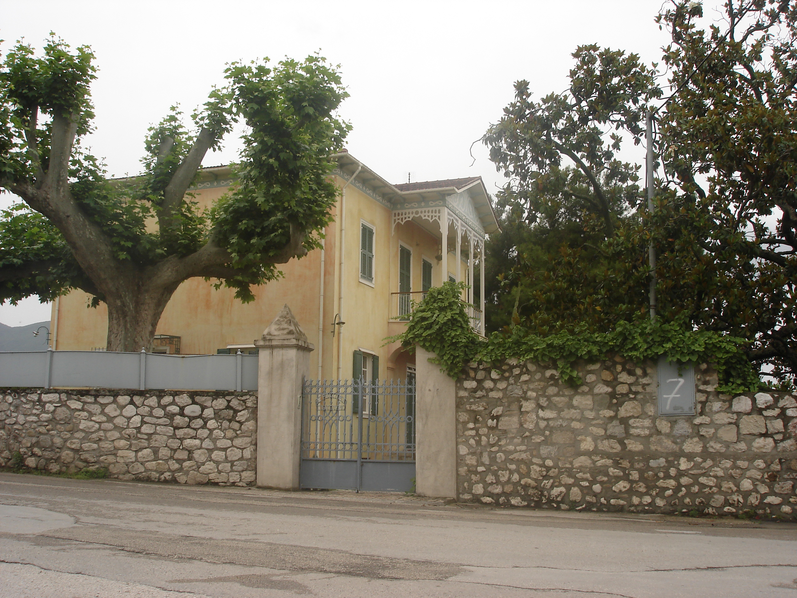 Lagouras_House,Laggoyra ,Patra ,Greece